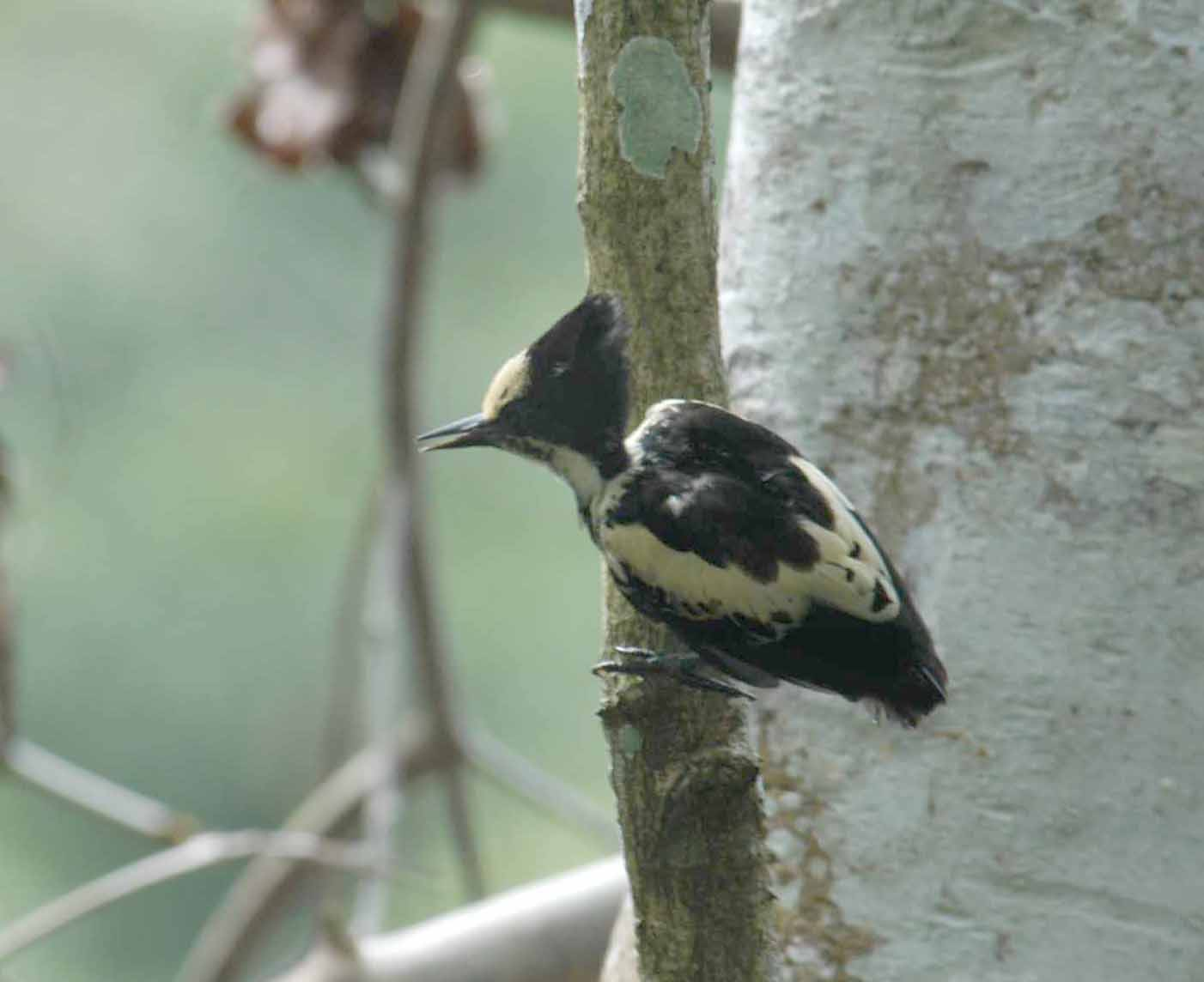 Heart-spotted woodpecker at Khao Yai, Thailand